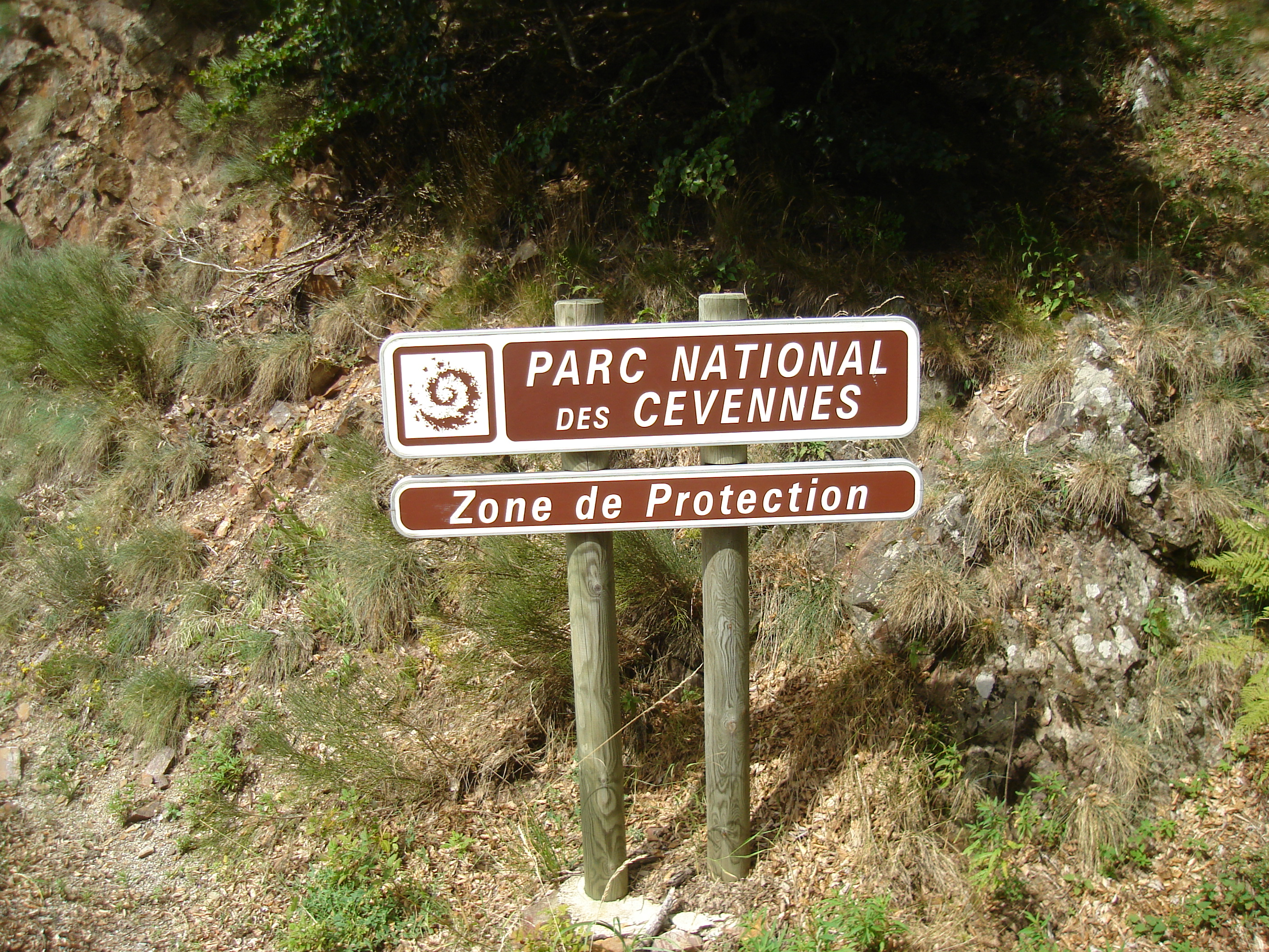 Photo prise aux portes du parc national des Cévennes dans le département du Gard